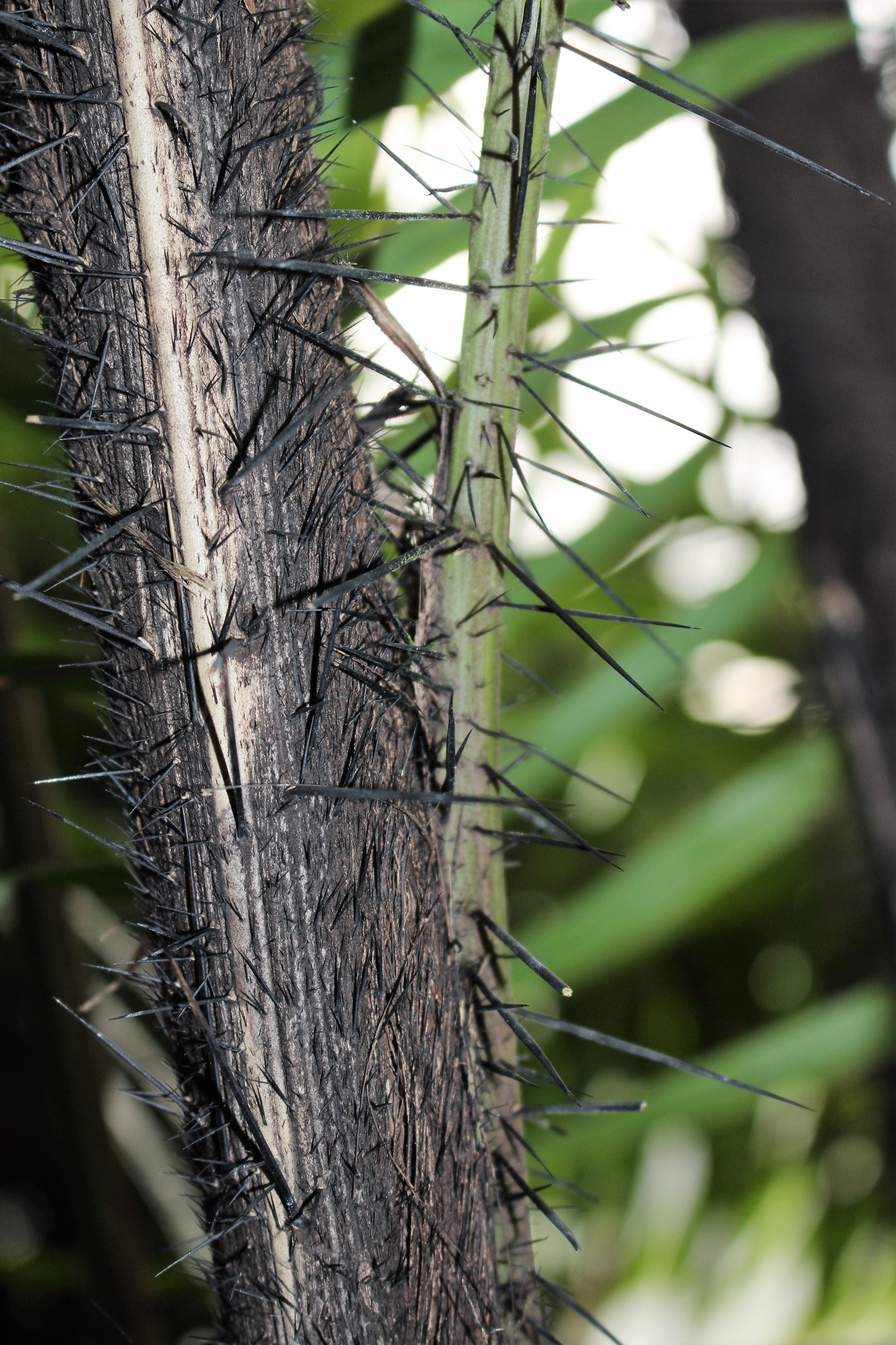 Bactris major in Kew Gardens, England.